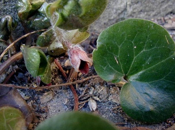 Asarum europaeum: Flower and foliage